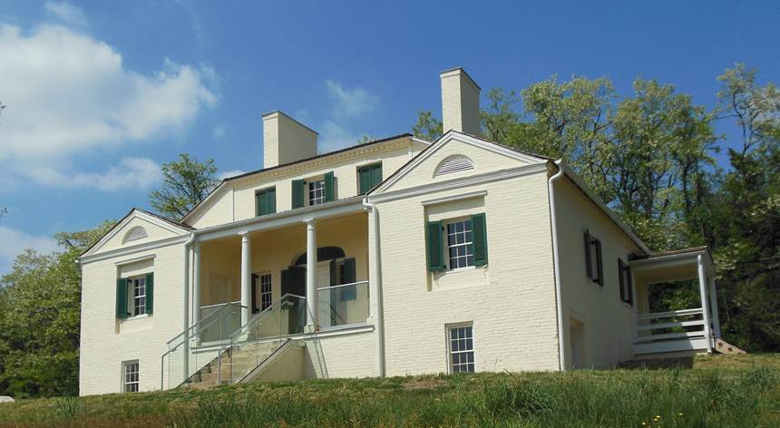 A photograph of Huntley soon after preservation and restoration efforts were completed. The image was taken from the terrace hill on the south side of the building.